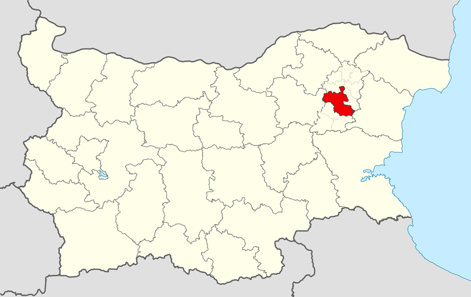 Location map of Shumen Municipality within Bulgaria and Shumen Province. Equirectangular projection, N/S stretching 130 %. Geographic limits of the map: N: 44.4° N S: 41.1° N W: 22.1° E E: 28.9° E